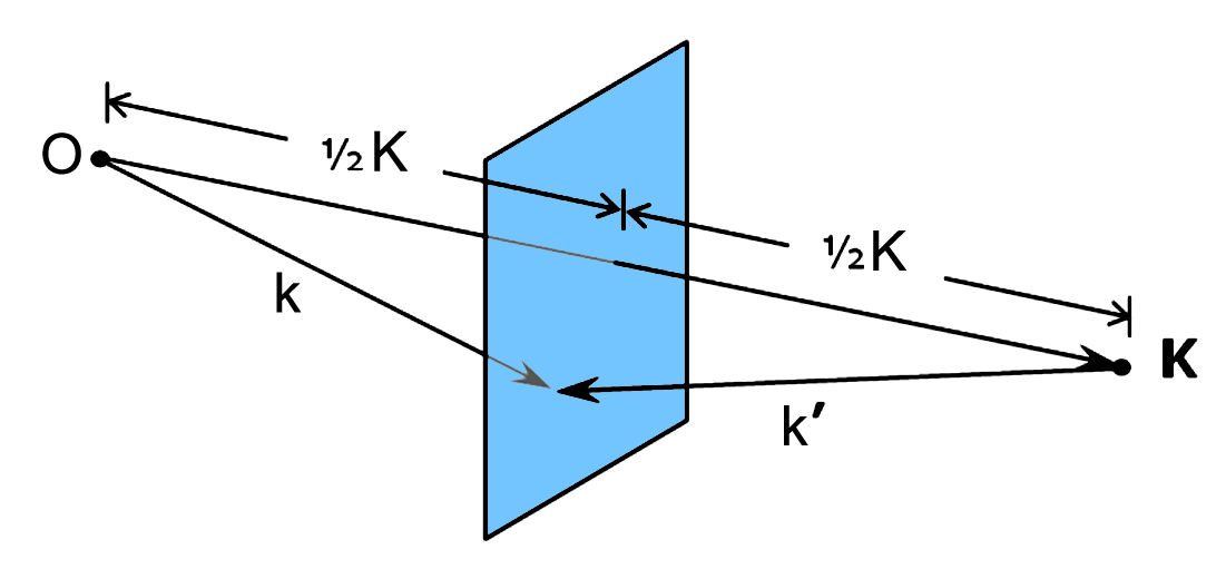 This diagram shows the Bragg plane relative to the reciprocal vector it bisects, and the wave vectors (k and k(prime)) which must terminate at the bragg plane as a condition for their associated waves to constructively interfere